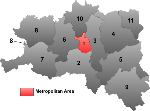 Map of Hanzhong in Shaanxi province.